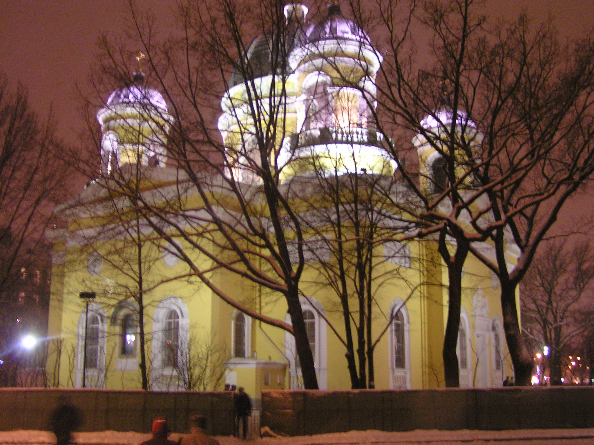 Saint Petersburg,Russia-new year's night 2005 on way to church